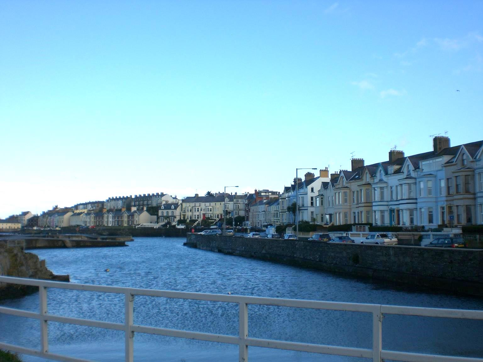 Bangor Bay March 2008